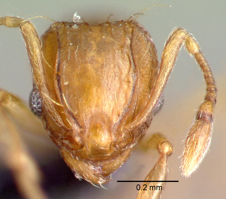 Head view of ant Wasmannia auropunctata specimen casent0039797.